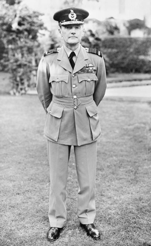 IWM caption : Air Chief Marshal Sir Arthur Longmore, Air Officer Commanding-in-Chief Middle East Command, standing in the gardens of Air Headquarters, Middle East Command, in Cairo.